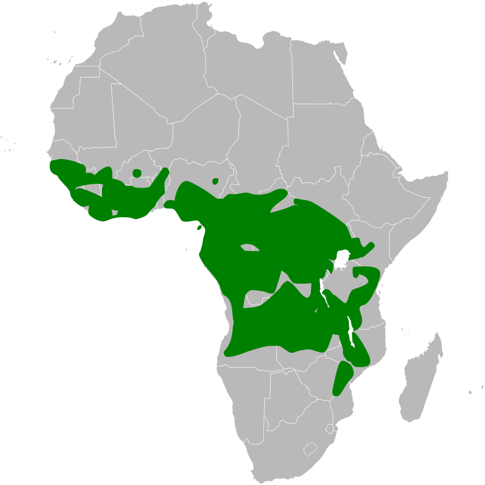 Elminia distribution map; using BlankMap-Africa.svg, based on